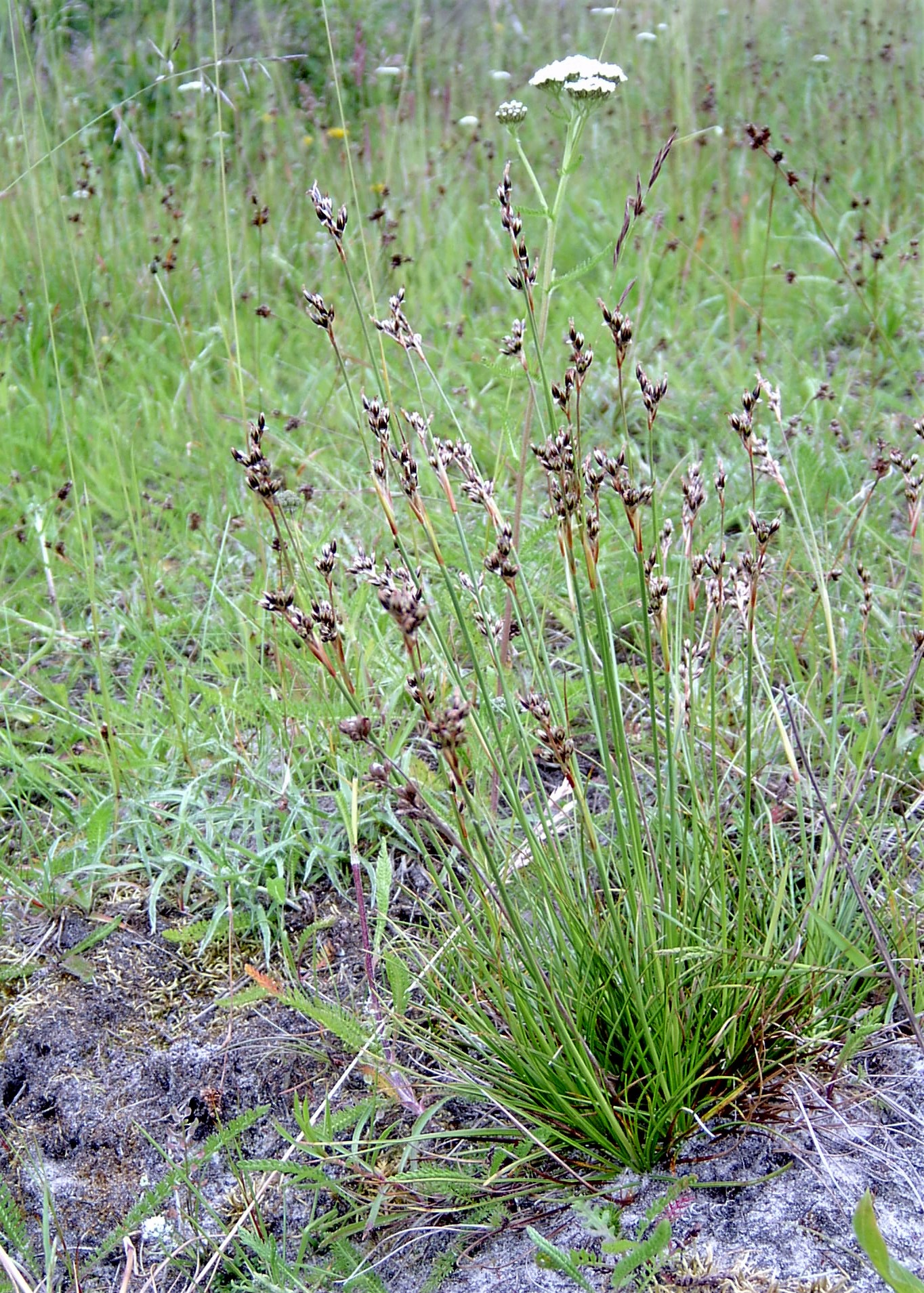 Juncus squarrosus in Rogowo near Kołobrzeg, NW Poland